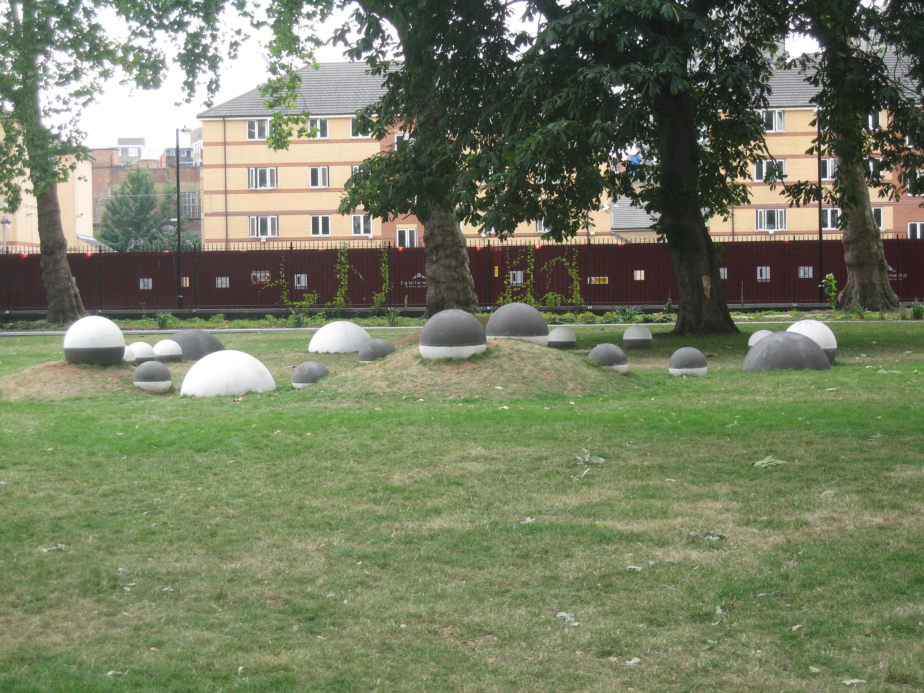 Topographical landscaping in St Mary's Churchyard reminiscent of Newington's archery butts, Newington Butts.